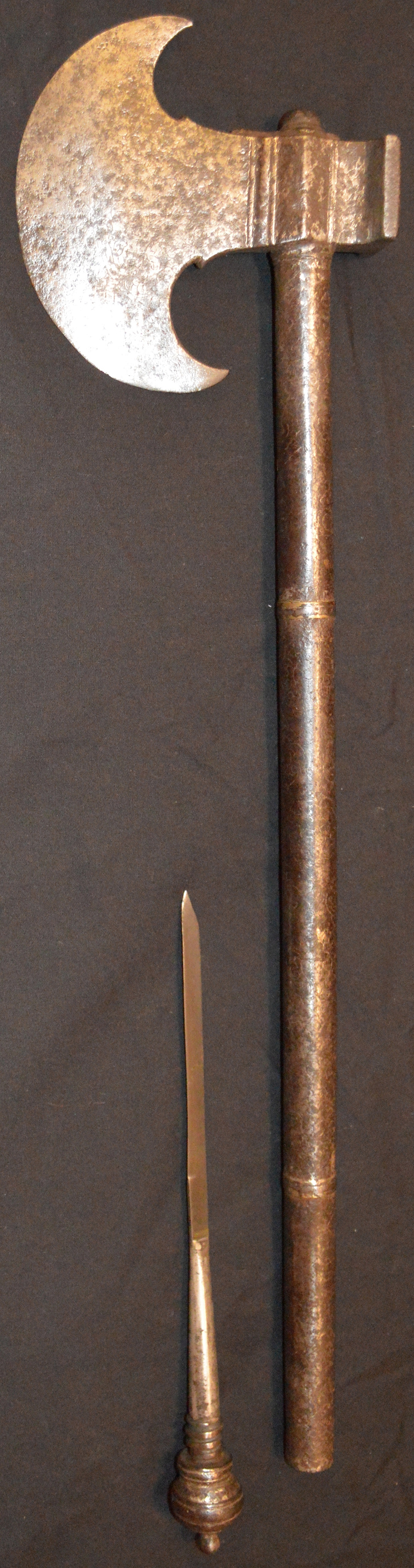 Indian (Sind) tabar battle axe, late 18 century or earlier, crescent shape 5 inch long head with a square hammer opposite of the blade, 22 inch long steel haft, the end of the haft unscrews to reveal a 5 inch slim blade. Heavily patinated head and handle with traces of engraving.